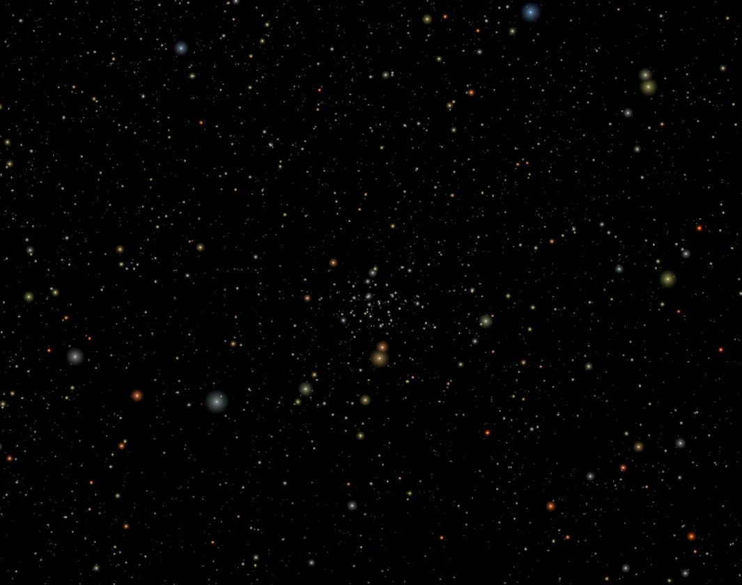 Image of NGC 1647